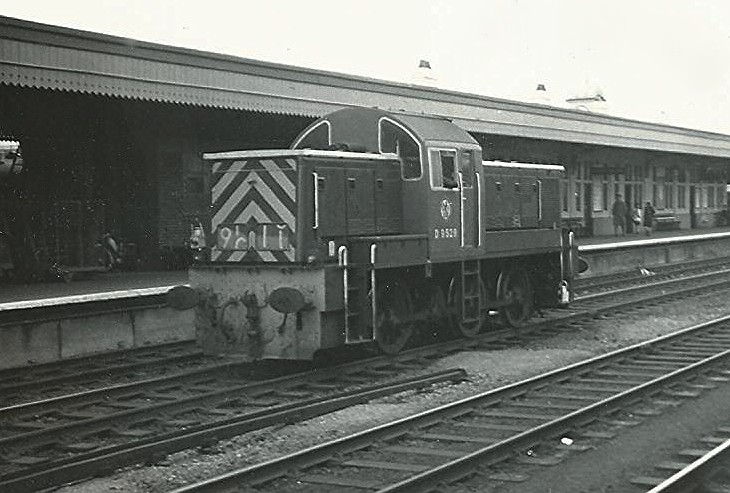 BR (Swindon) Type 1 (later Class "14") 650 hp 0-6-0 No.D9528 in BR two tone green livery trundling through Cardiff General station, 10/65. Scanned photograph taken with an Halina 35X Super camera.